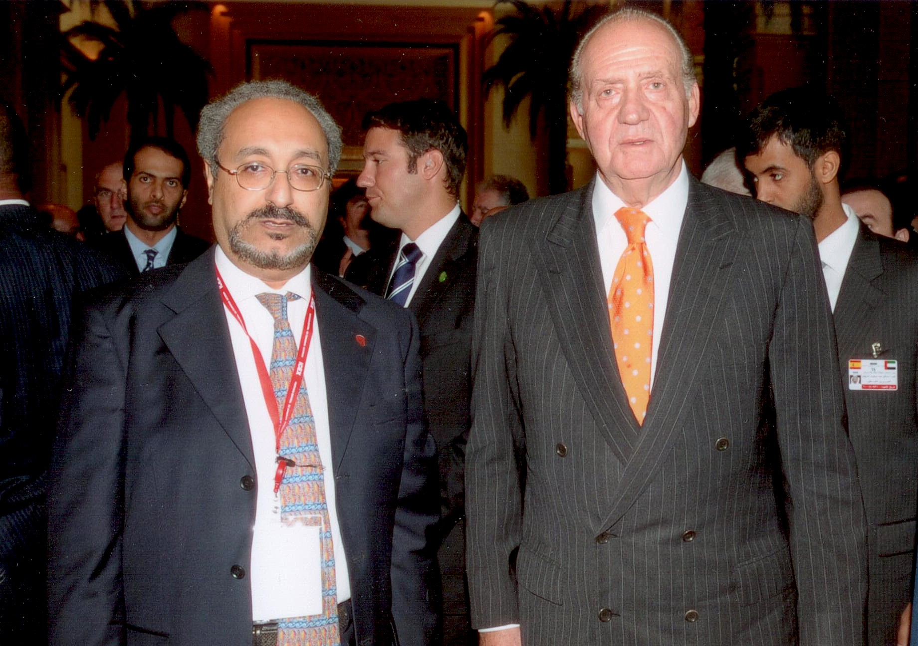 Bachir, Belbachir's oldest son and the king of Spain